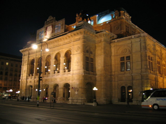 Austria, Vienna, Vienna State Opera